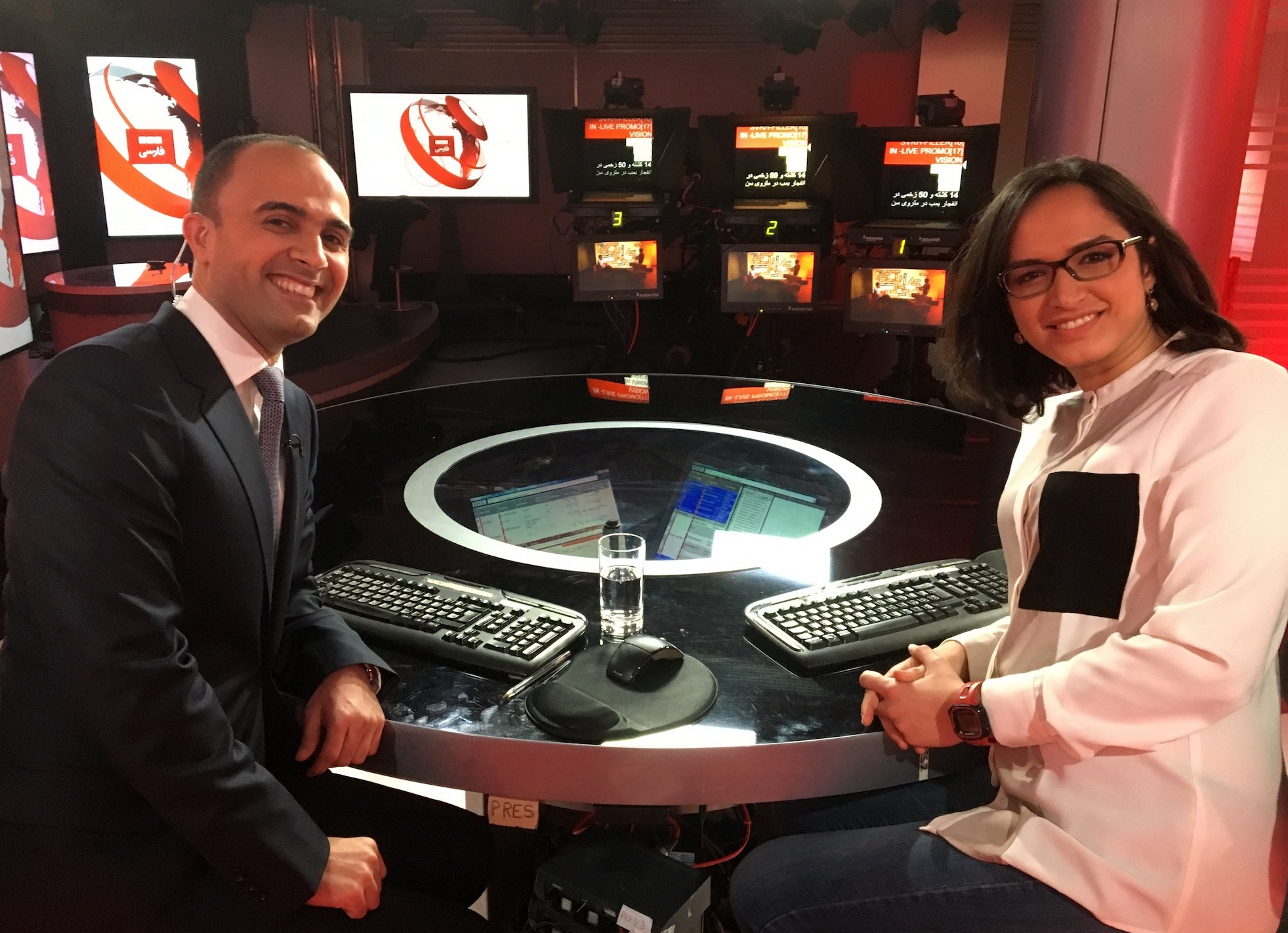 BBC Persian TV presenters Majid Afshar (L) and Rana Rahimpour (R), London, 2017. Photo: Persian Dutch Network